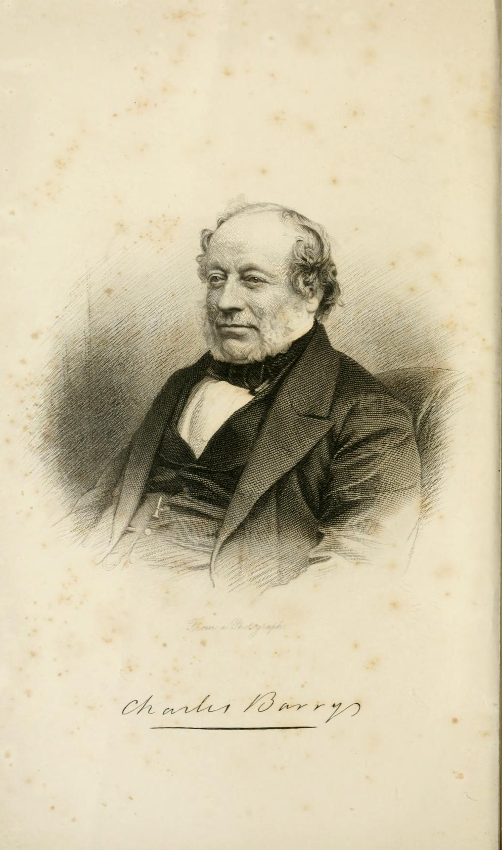 Chals Barry